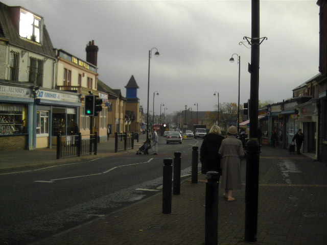 Elswick Road. Saturday morning activity on this area's main street.